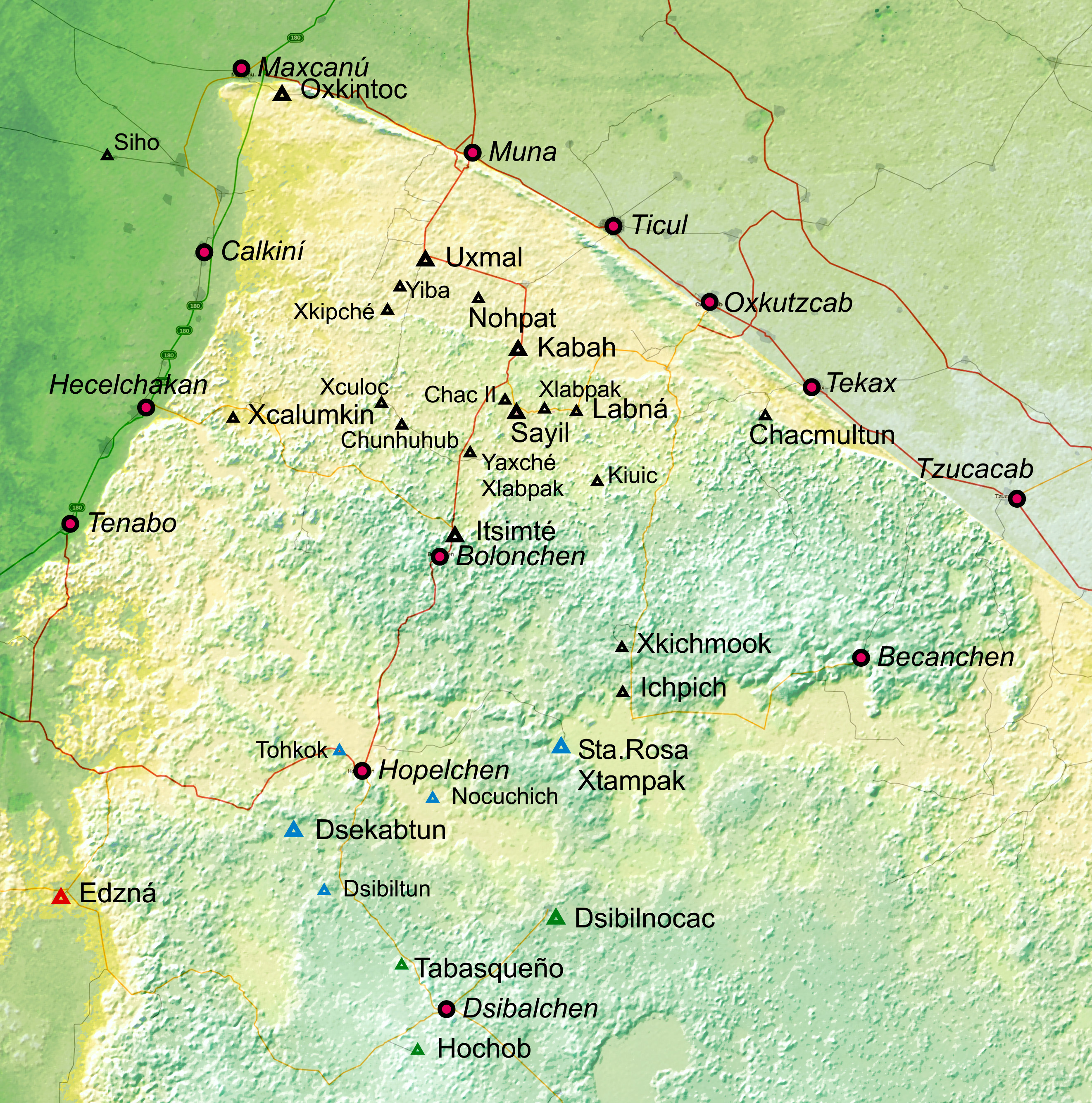 Important Maya archaeological sites in Puuc Region, Yucatan and Campeche, Mexico.